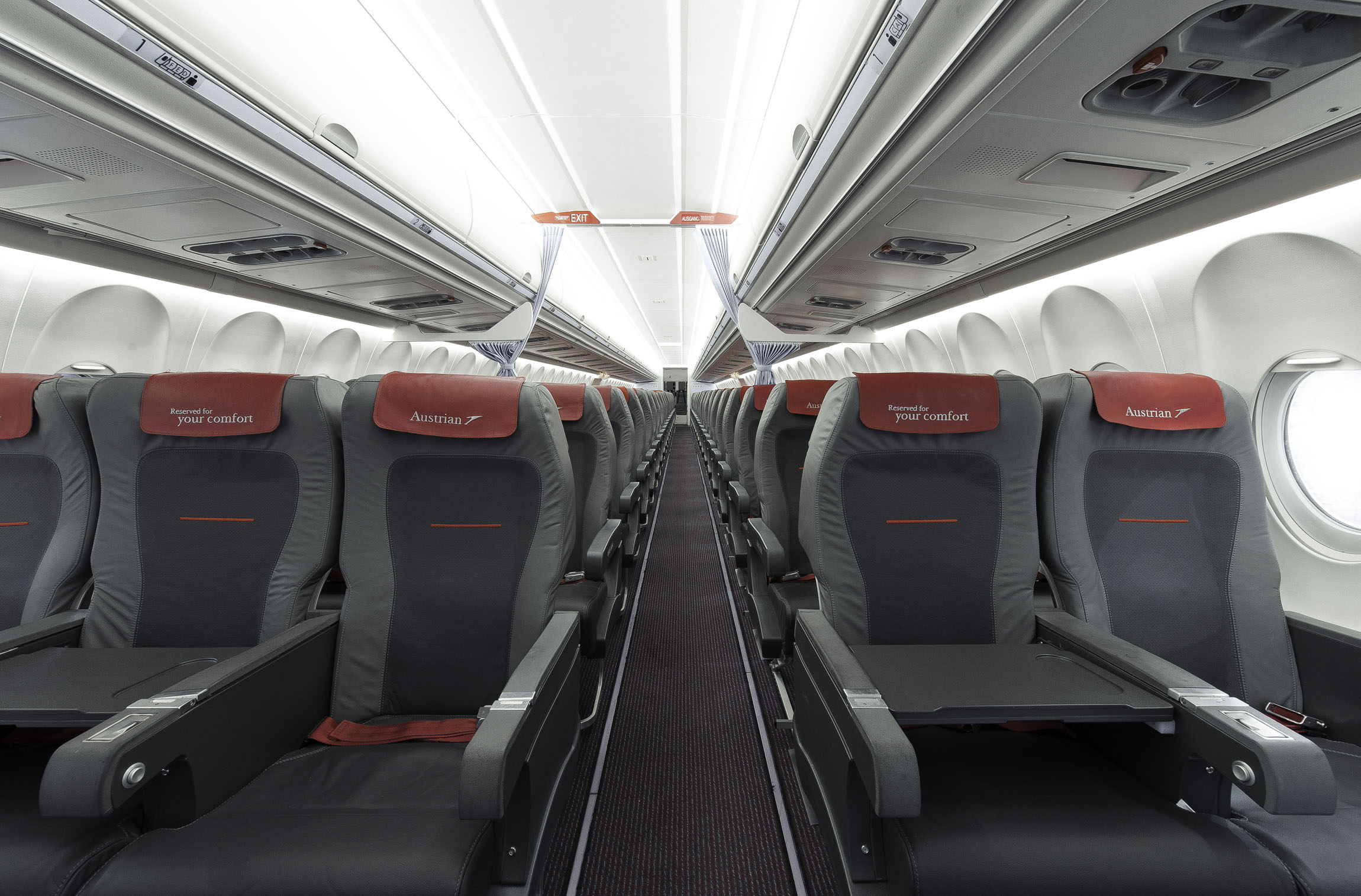 Austrian Airlines Fokker F100 economy class passenger cabin